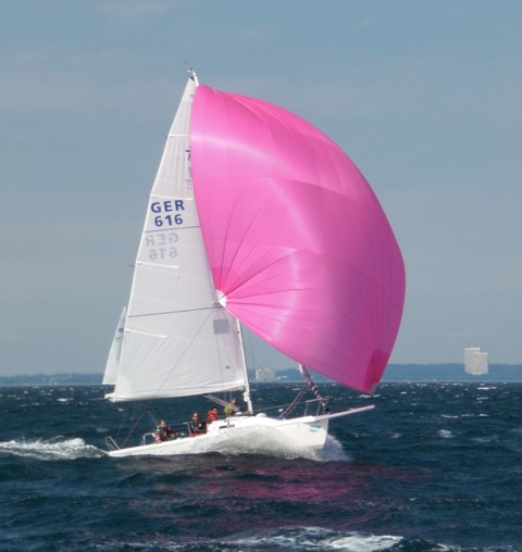 J/80 surfing at Travemuende race week